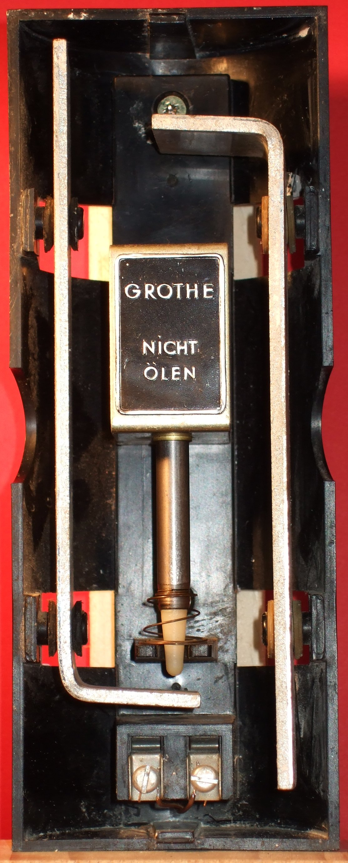 Ding-dong door chime. It is composed of, as anotated in the image: Middle: solenoid below: armature with clappers left and right: chime rods Function: Without current applied the bell is as shown in the photograph. The clapper is hold by the spring with some distance to the lower chime rod. When you apply current, the solenoid lifts the armature and the upper clapper strikes against the upper (right) chime. As the solenoid is made to keep the armature just below the upper chime, the clapper falls back a tiny bit and keeps in this position as long as current is applied to the solenoid. When there is no more current, the armature falls down, the spring gets mechanical contact to its counterpart and decreases speed of the armature, but the armature still moves on and let the lower clapper strikes the lower (left) chime rod. Then the armature is lifted a tiny bit by the spring and returns to initial position. The label reads "Grothe" (brand name/manufacturer) and, in German, "nicht ölen" (do not oil).